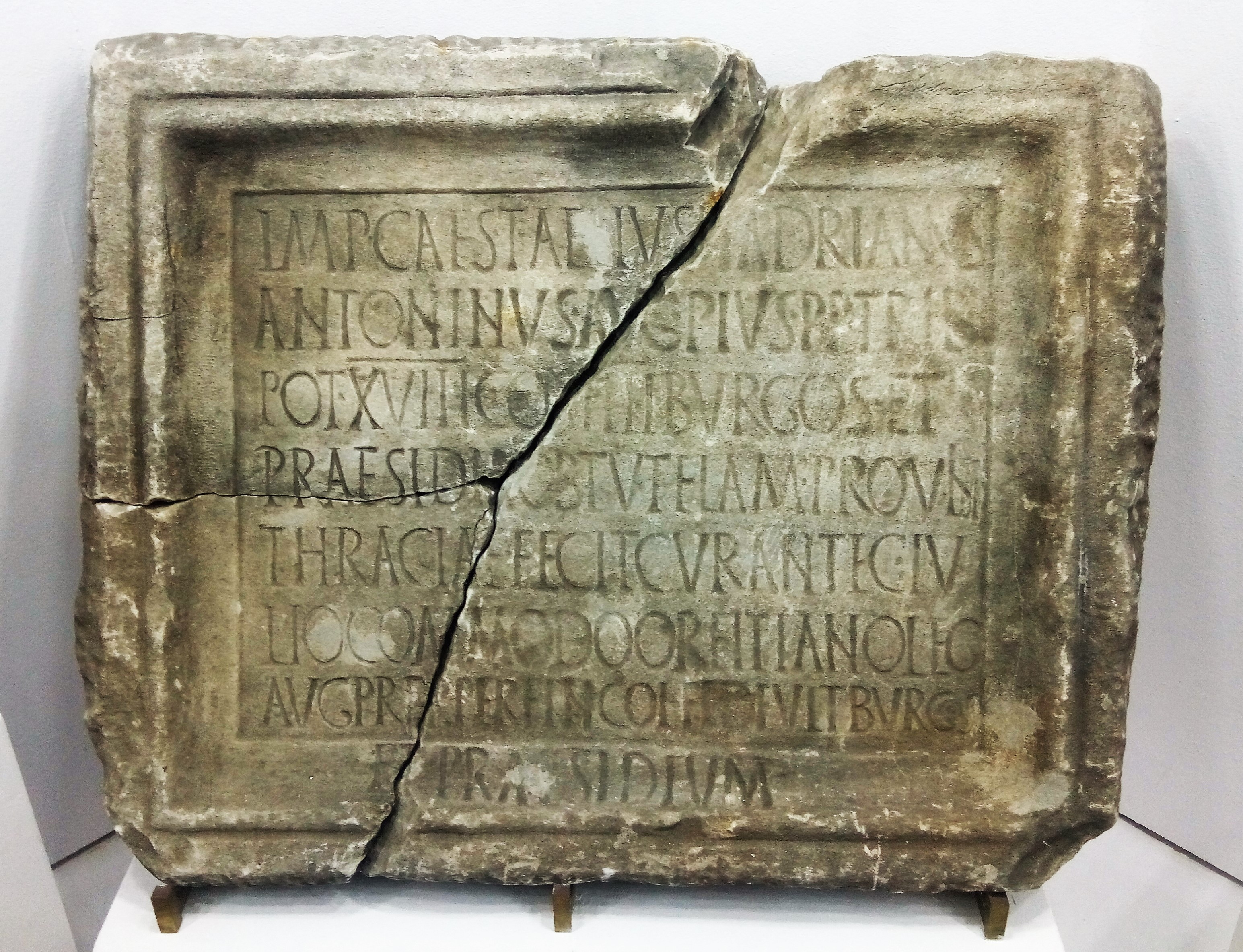 The inscription was placed where the passengers from Adrianople to Anchialo crossed the Deultum border.